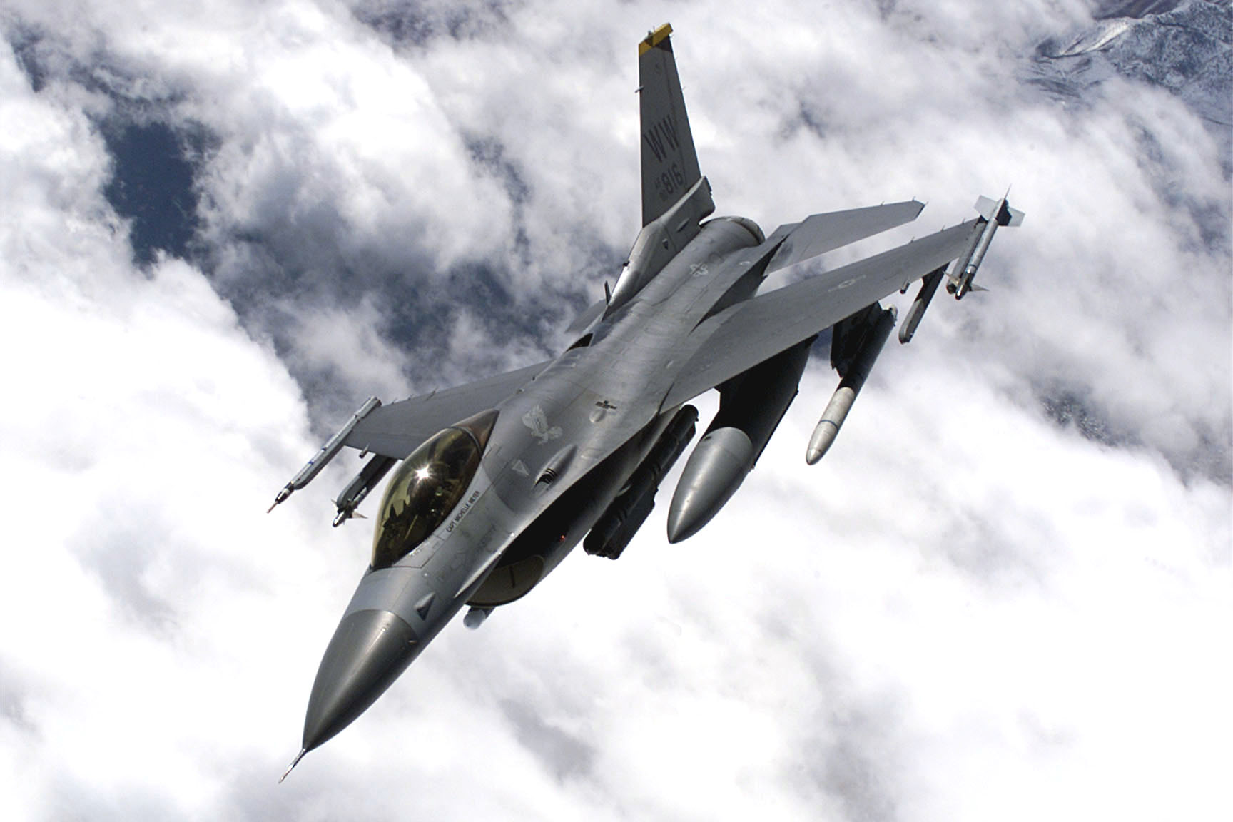 An F-16 from the 13th Fighter Squadron, Misawa AB Japan banks over Nellis AFB's expansive range. The aircraft is a participant of Red Flag 01-03.